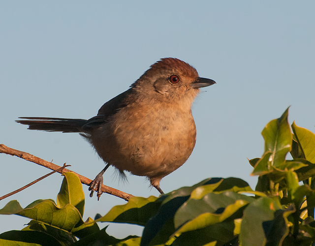 Rufous-capped Antshrike